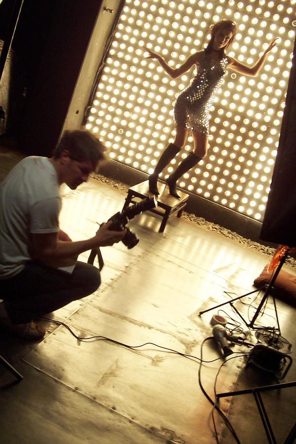 Model shooting